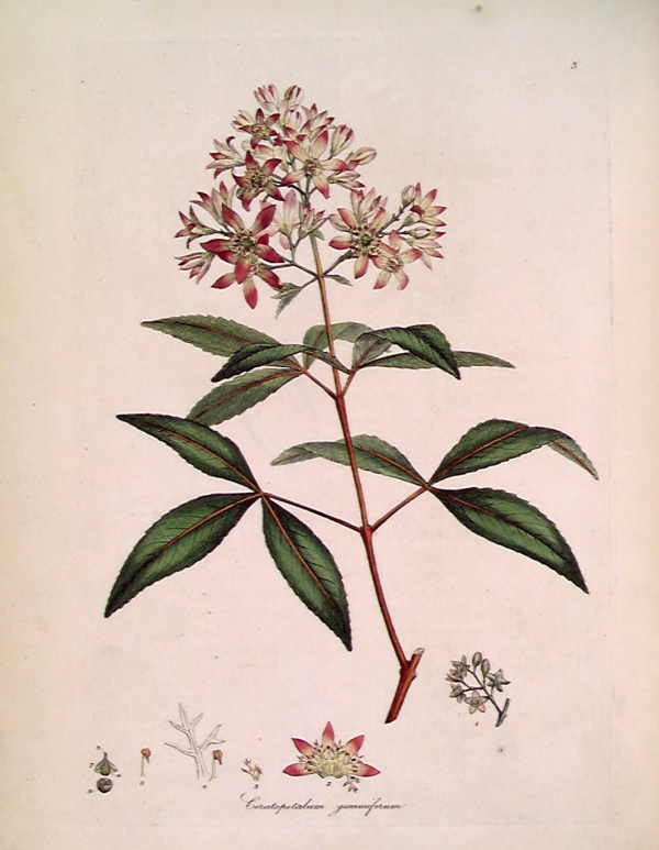 This is an image of a print of a hand coloured engraving by James Sowerby (1757-1822), based on a drawing nominally by John White but probably by the convict artist Thomas Watling. It appeared as Tab. III in James Edward Smith's 1793 A Specimen of the Botany of New Holland. The plant depicted is Ceratopetalum gummiferum. The accompanying text explains the figure thus: A bunch of young flowers, of their natural size. The more advanced calyx laid open, with its petals and stamina in the proper situations. A petal and stamen separate. The same magnified. Back of the filament and anthera. Germen in a young state. Its coriaceous covering. Stigma. Germen somewhat farther advanced, cut across to shew the cells.